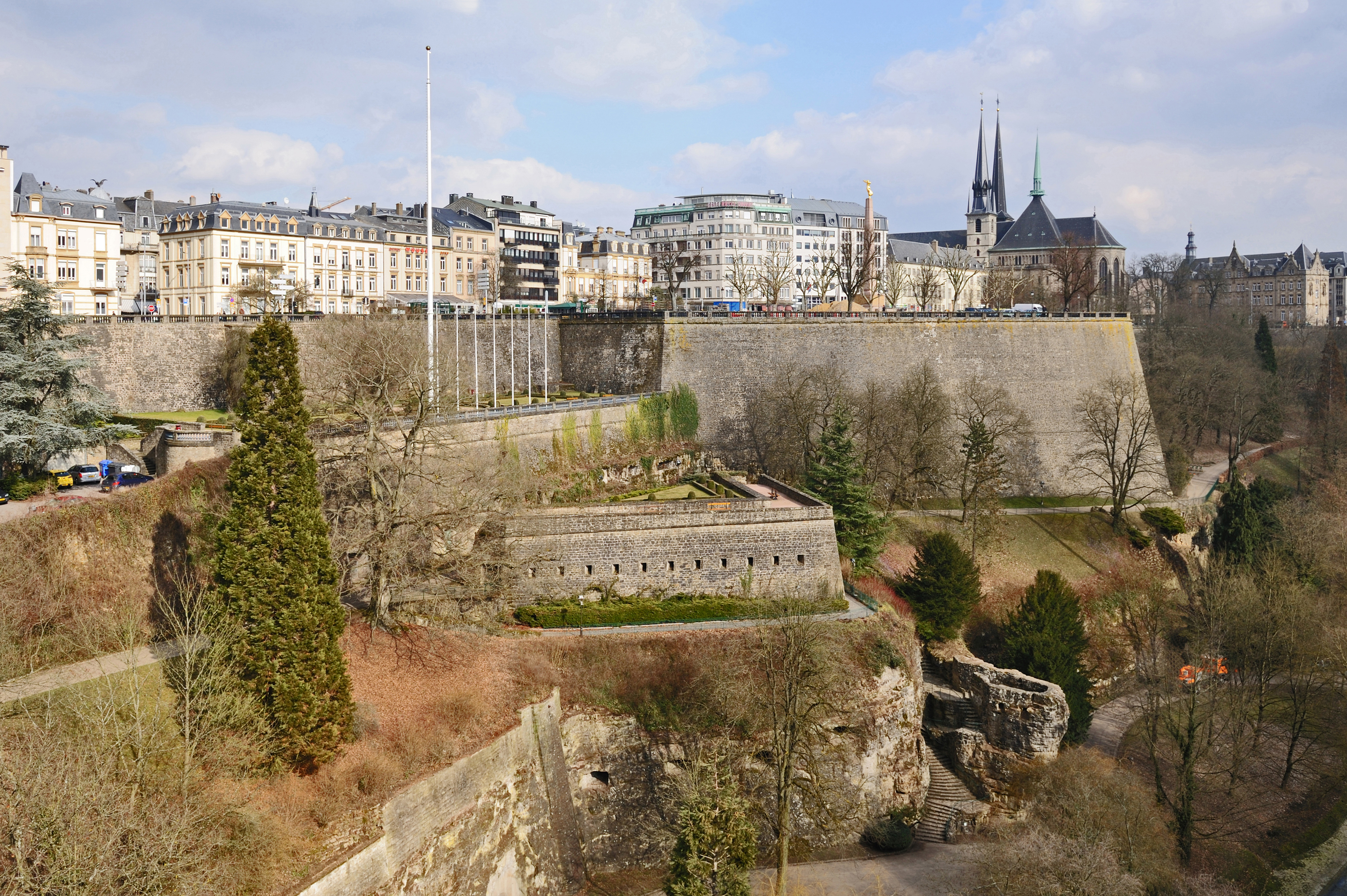 Part of the Luxembourg Fortress seen from the Adolphe Bridge. Featured: cathédrale Notre-Dame, Monument du souvenir (Gëlle Fra), bastion Beck, fausse braye (Niederwall) Beck-Jost, ravelin Beck-Jost (Lux.: Paschtéitchen), the so-called Pulpit (Priedegtstull), a remarkable beech and the Petrusse valley.